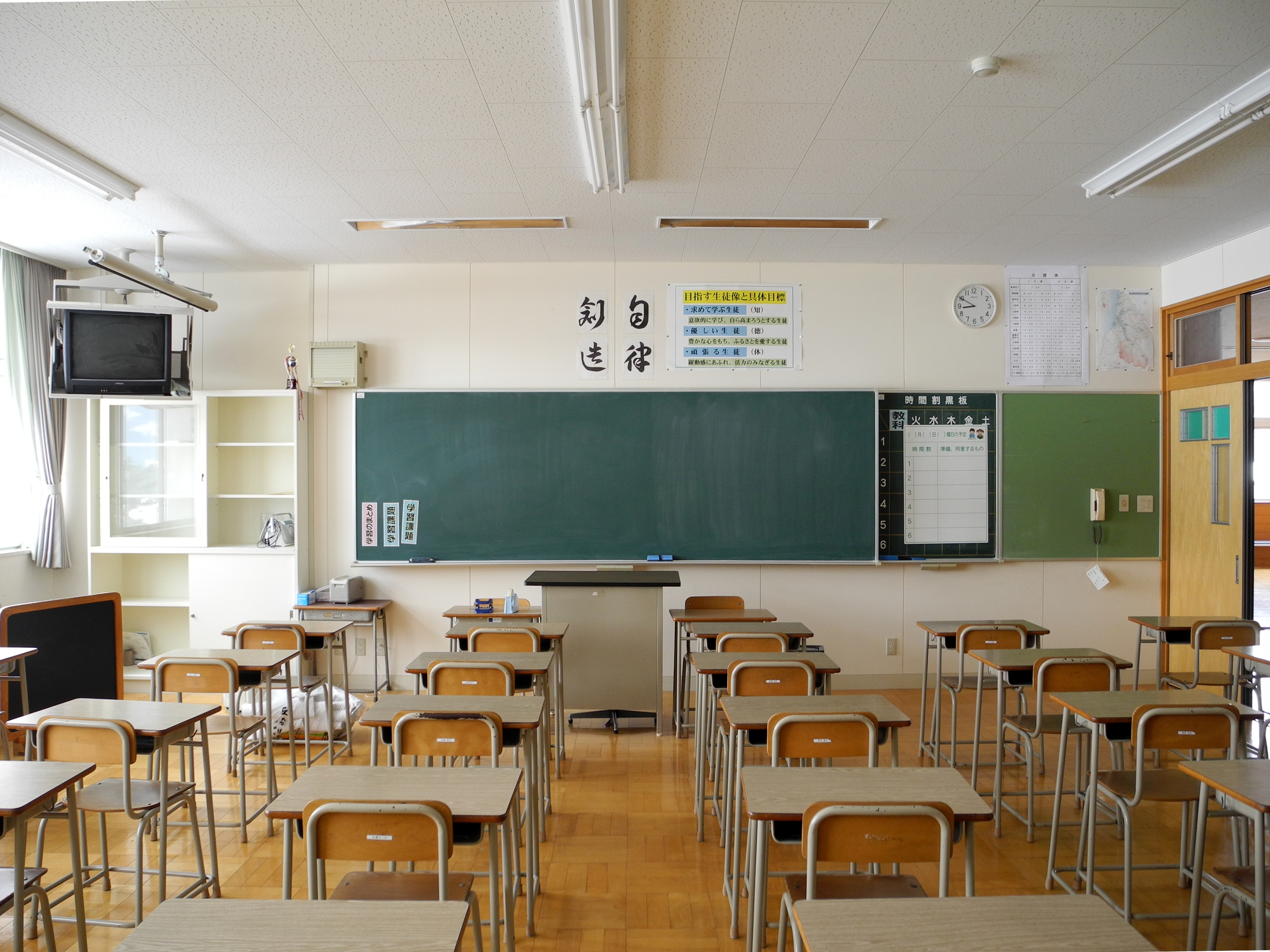 Front of classroom. 2B classroom before new school year begins. Chokai Junior High School. Fushimi, Chokai, Yurihonjo, Akita, Japan.